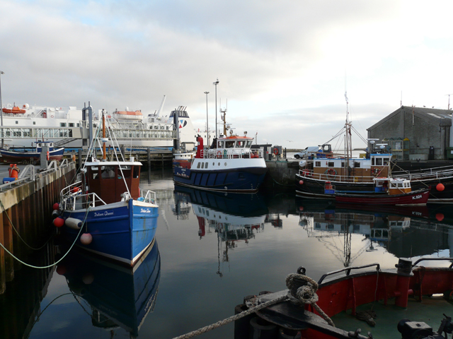 Stromness Harbour In the centre of the photo is the Graemsay ferry (MV Graemsay). In the background is the NorthLink passenger and vehicle ferry to Scrabster.